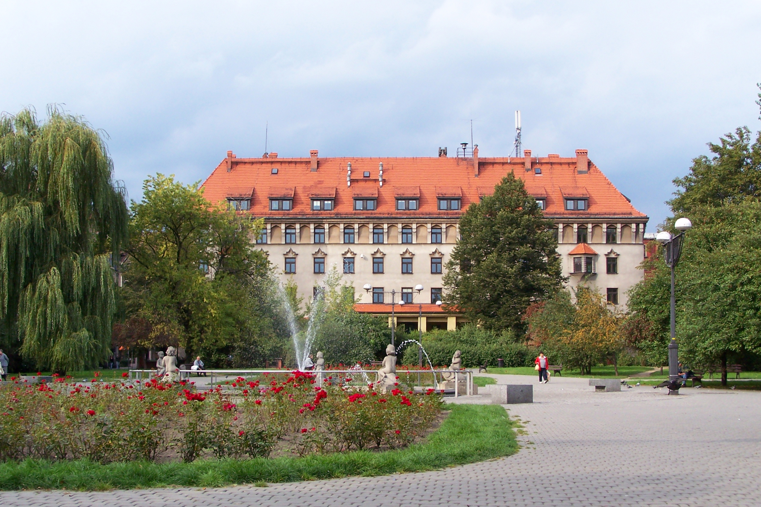 Square in Bytom (Poland).